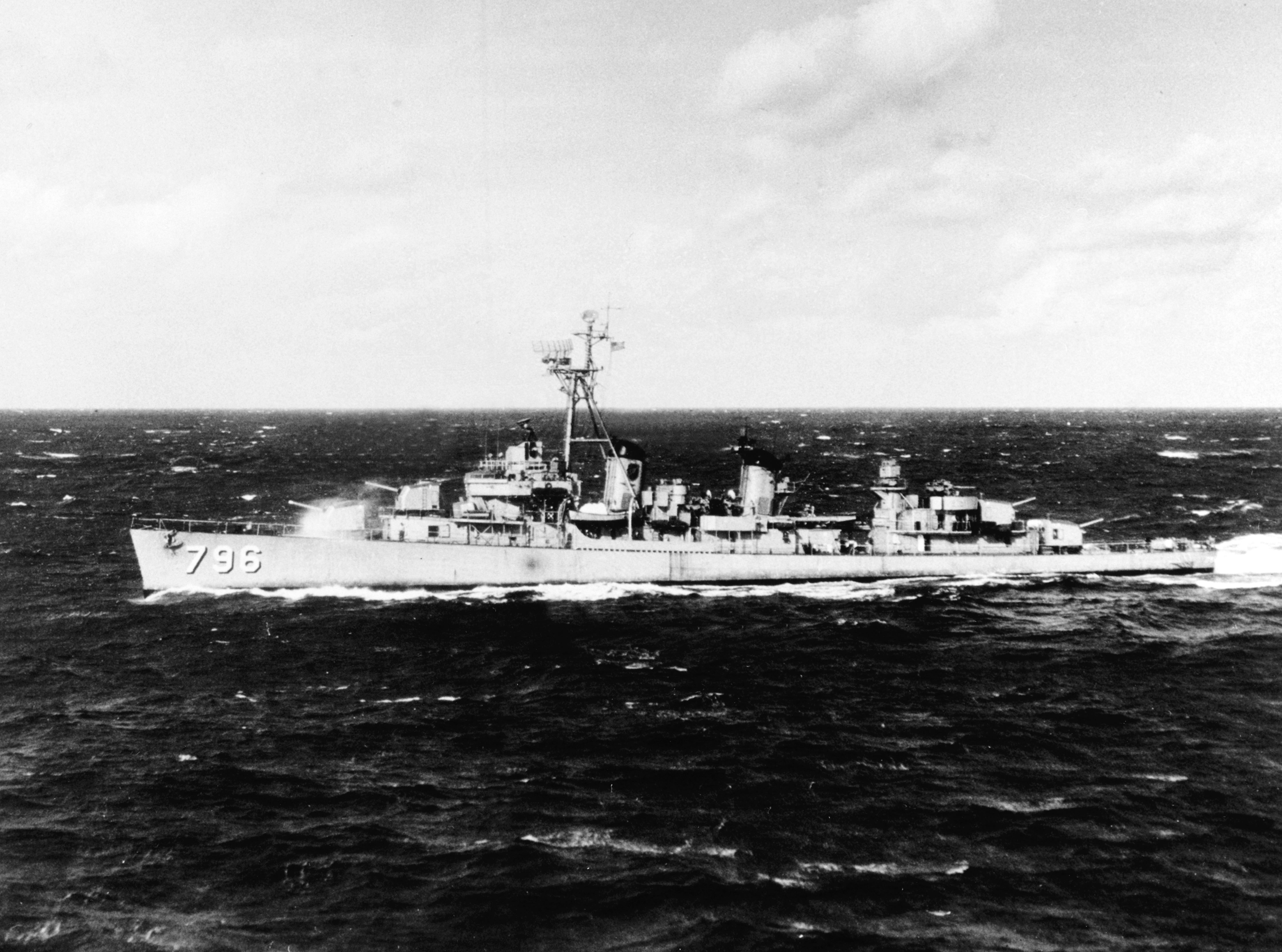 The U.S. Navy destroyer USS Benham (DD-796) underway at sea, circa 1959.